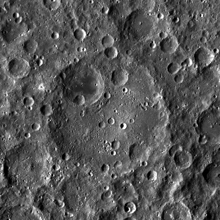 LROC . Dark-floor 90 km-wide Isaev lies on NW Gagarin floor.